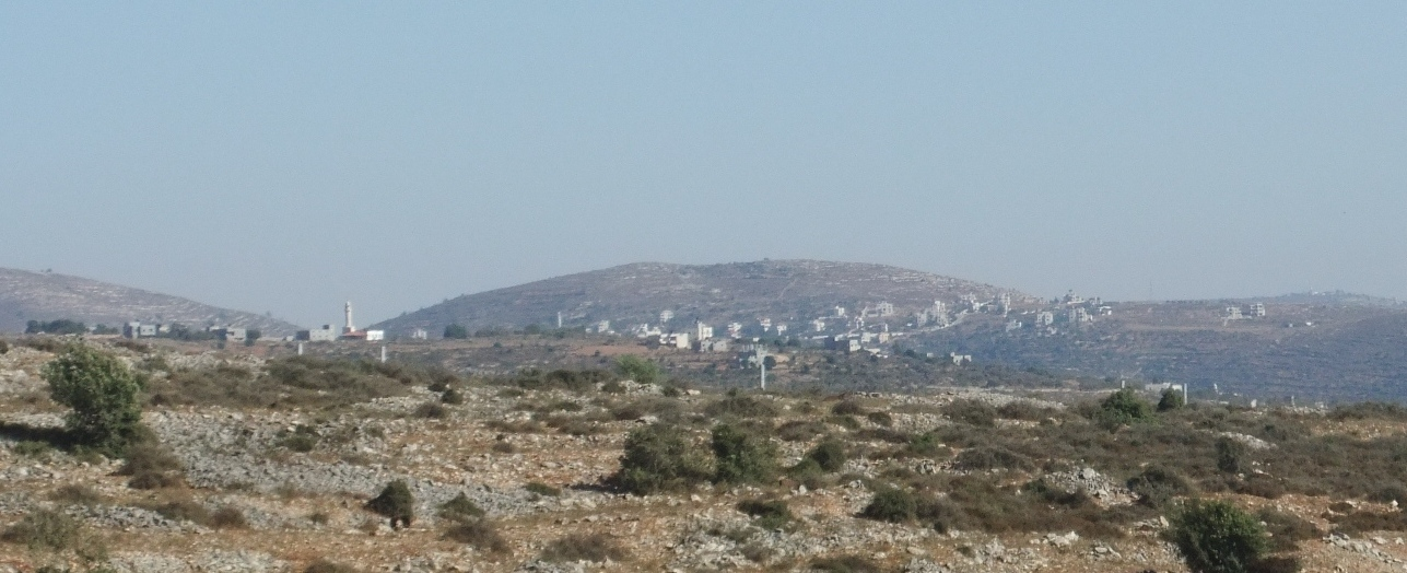 Jilijliya are the houses on the right of the mountain sticking out in the middle of the picture. The houses to the left are Ammuriya. Note that although the houses look close to each other, they are separated by several kilometers which includes a deep valley. The picture was taken from Ariel in the north.